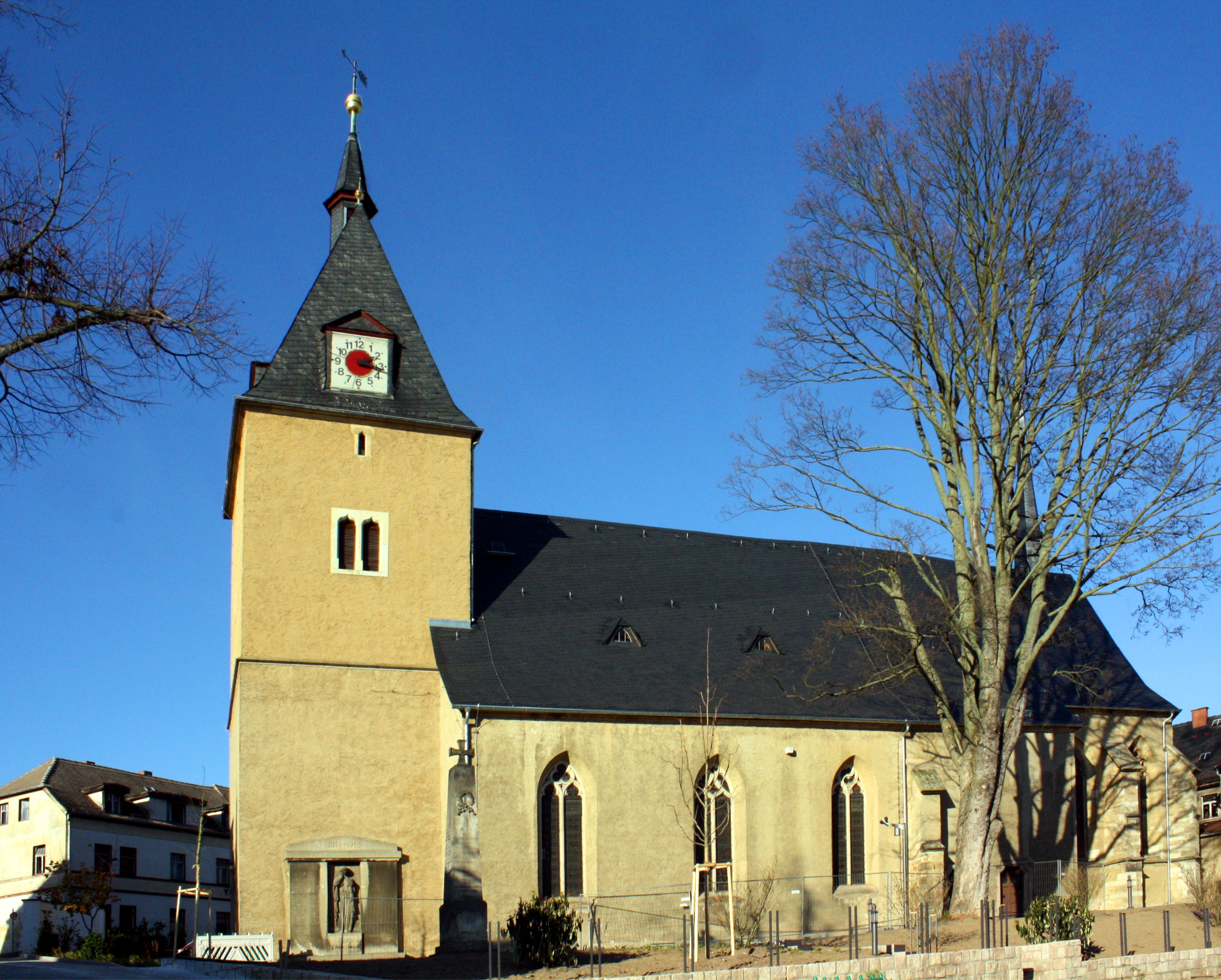 Church in Münchenbernsdorf near Gera/Thuringia